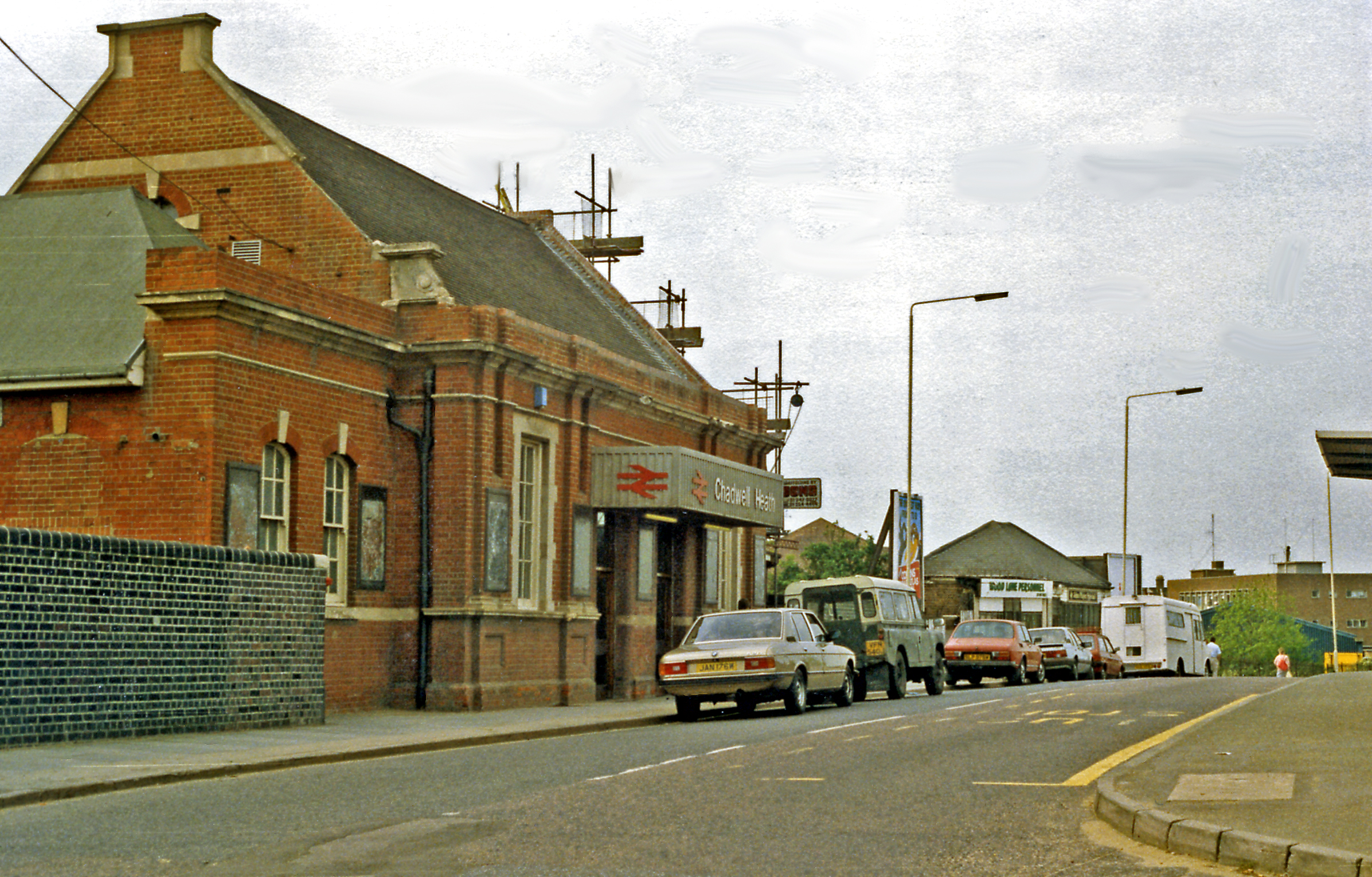 Chadwell Heath (for Becontree) station, exterior Up side, 1988. View NE, towards Chelmsford, Colchester etc.: ex-GER Liverpool Street - Colchester etc. main line.